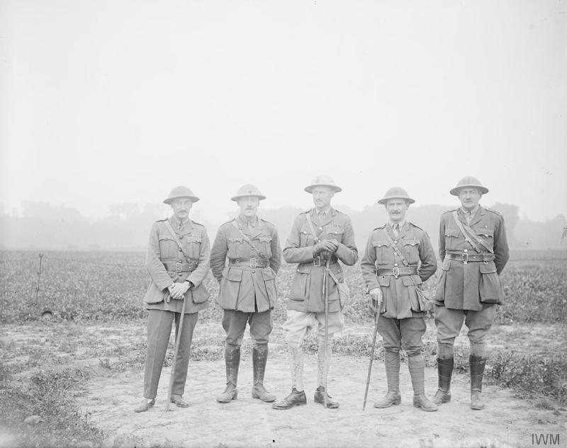 The Battle of Messines, June 1917 Brigadier-General F. W. Ramsay, the Commander of the 48th Brigade, 16th Irish Division (middle), and some of his Staff officers, 11 June 1917.